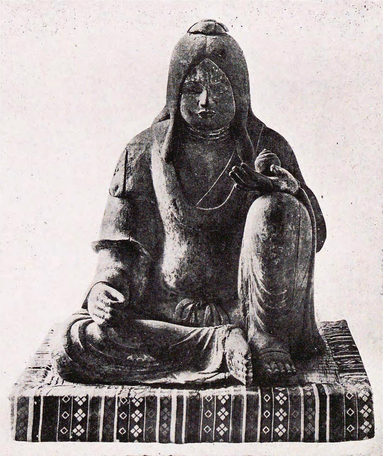 A statue of Ukanomitama made in Heian period at Ozu-jinja, Moriyama, Shiga prefecture. An Important Cultural Property of Japan.